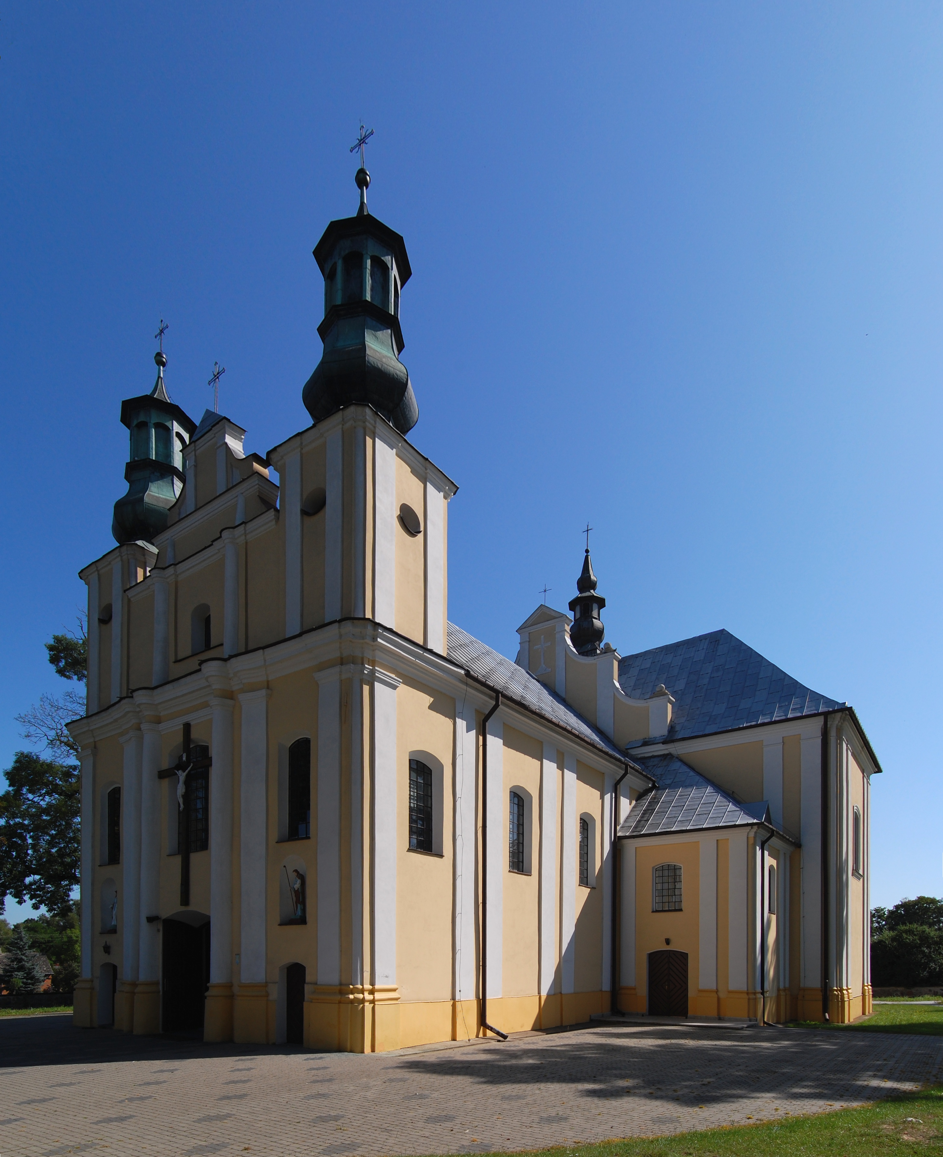 Church in Górzno, Masovian Voivodeship, Poland.